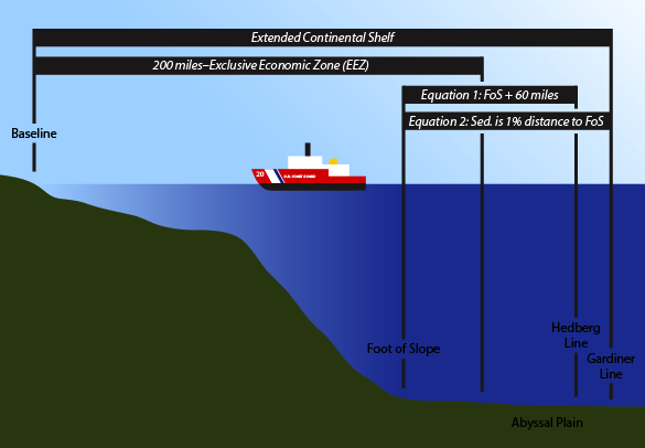 Diagram explaining the two formulae for extending a state's continental shelf under UNCLOS.